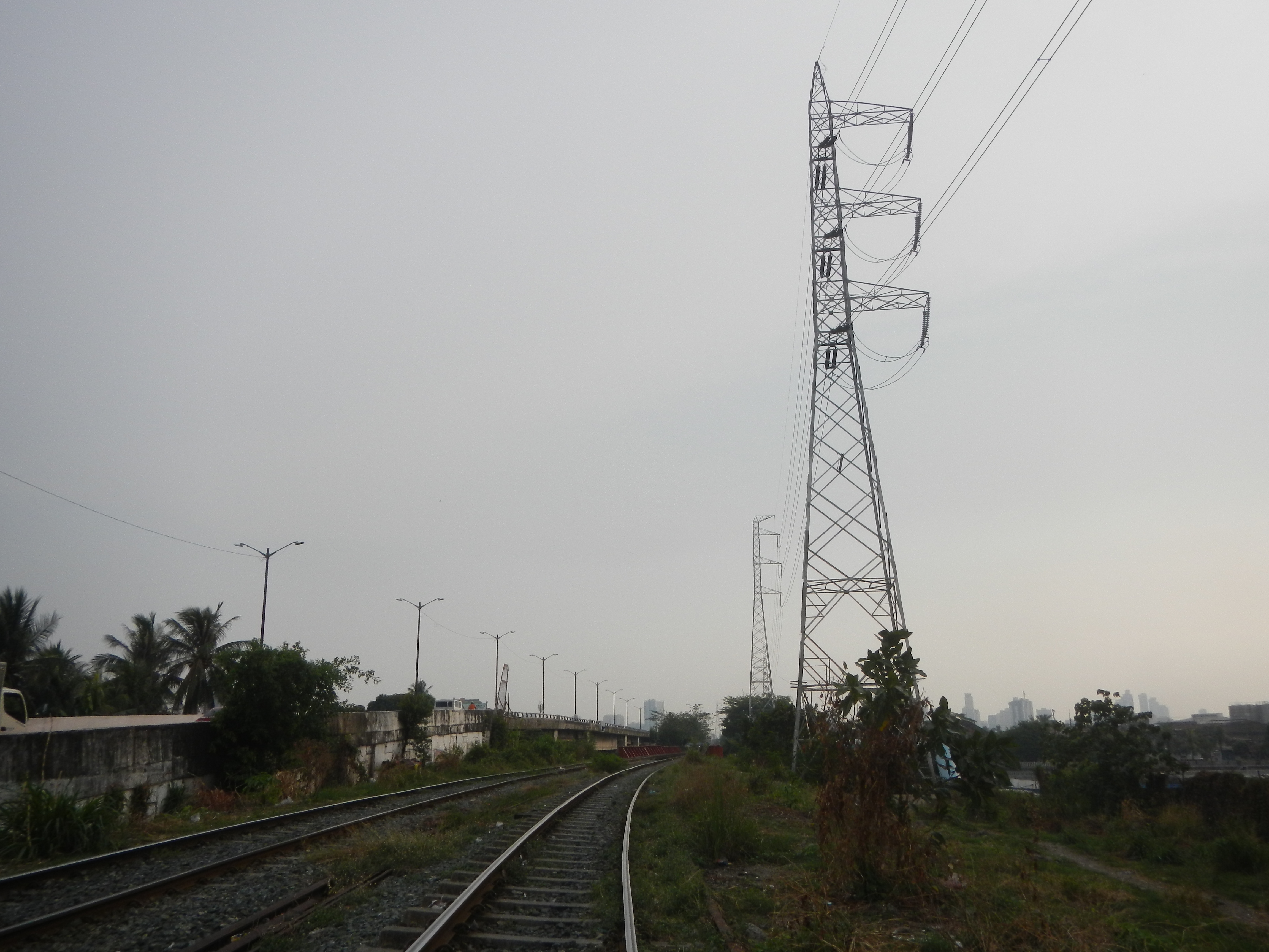 Paco-Santa Mesa, Manila Bridge Steel bridge (Pasig River, Philippine National Railway tracks - Pandacan, Manila) Paco-Santa Mesa Bridge (Pasig River, Pandacan, Manila) Maynilad Water Services pipelines (Pasig River, Pandacan, Manila) Philippine National Railway tracks in Santa Mesa & Pandacan, Manila (Santa Mesa & Pandacan railway stations) PNR Metro South Commuter Line Strong Republic Transit System Santa Mesa (PNR station) Santa Mesa station 14°36'1"N 121°0'38"E for the use of newer Philippine National Railways diesel multiple units interconnecting with the Pandacan PNR Station (Manila) 14°35'25"N 121°0'31"E Pandacan railway station Anonas Street 14°35'54"N 121°0'45"E Santa Mesa in the List of barangays of Metro Manila Barangays 590, 591, Zone 58, 630, 631, Zone 63, District VI, Barangays 418, 419, 420, 421, 422, 423, 424, Zone 43, Barangays 425, 426, 427, Zone 43, District II, Sampaloc, Manila, Barangays 418, 419, 420, 421, 422, 423, 424, Zone 43, 579, 580, 581, Zone 56, District IV, 592, 593, Zone, 58, 626, 627, 628, 629, Zone 63, District VI, Santa Mesa has 49 barangays (Barangays 587-636) to the List of barangays of Metro Manila, Legislative districts of Manila 6th District, Barangays 832, Zone 90, 833, 834, 835 and 836, Zone 91 Barangays 837, 838, 839, 840, Zone 91, 865, Zone 94, District VI, Pandacan City of Manila (Note: Judge Florentino Floro, the owner, to repeat, Donor Florentino Floro of all these photos hereby donate gratuitously, freely and unconditionally all these photos to and for Wikimedia Commons, exclusively, for public use of the public domain, and again without any condition whatsoever).